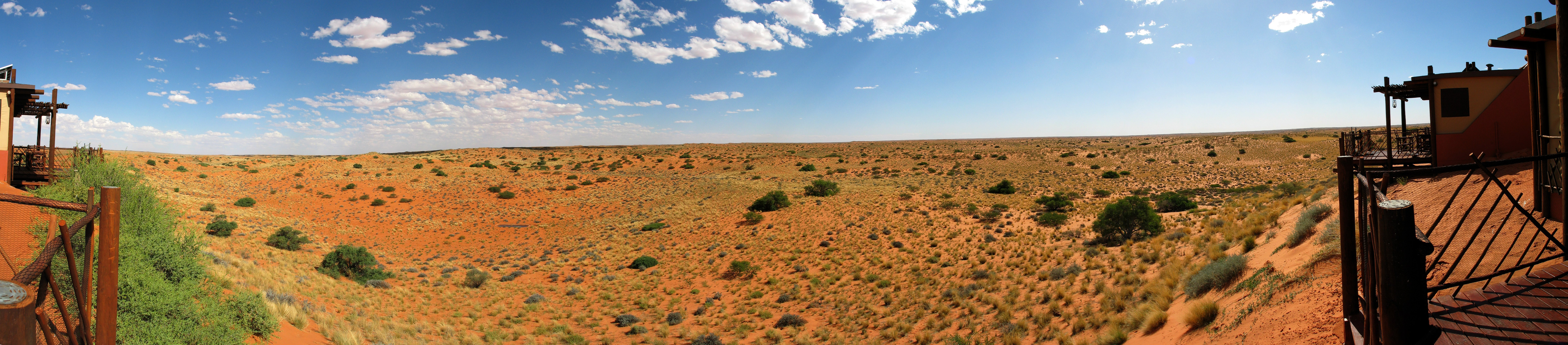 Panoramic view from the Kieliekrankie Wilderness Camp in the Kgalagadi Transfrontier Park, South Africa